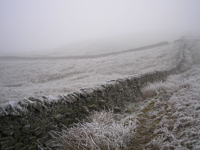 Freezing fog. Below West Fell End on the path down the length of Whernside. Looking north east along the ridge wall.